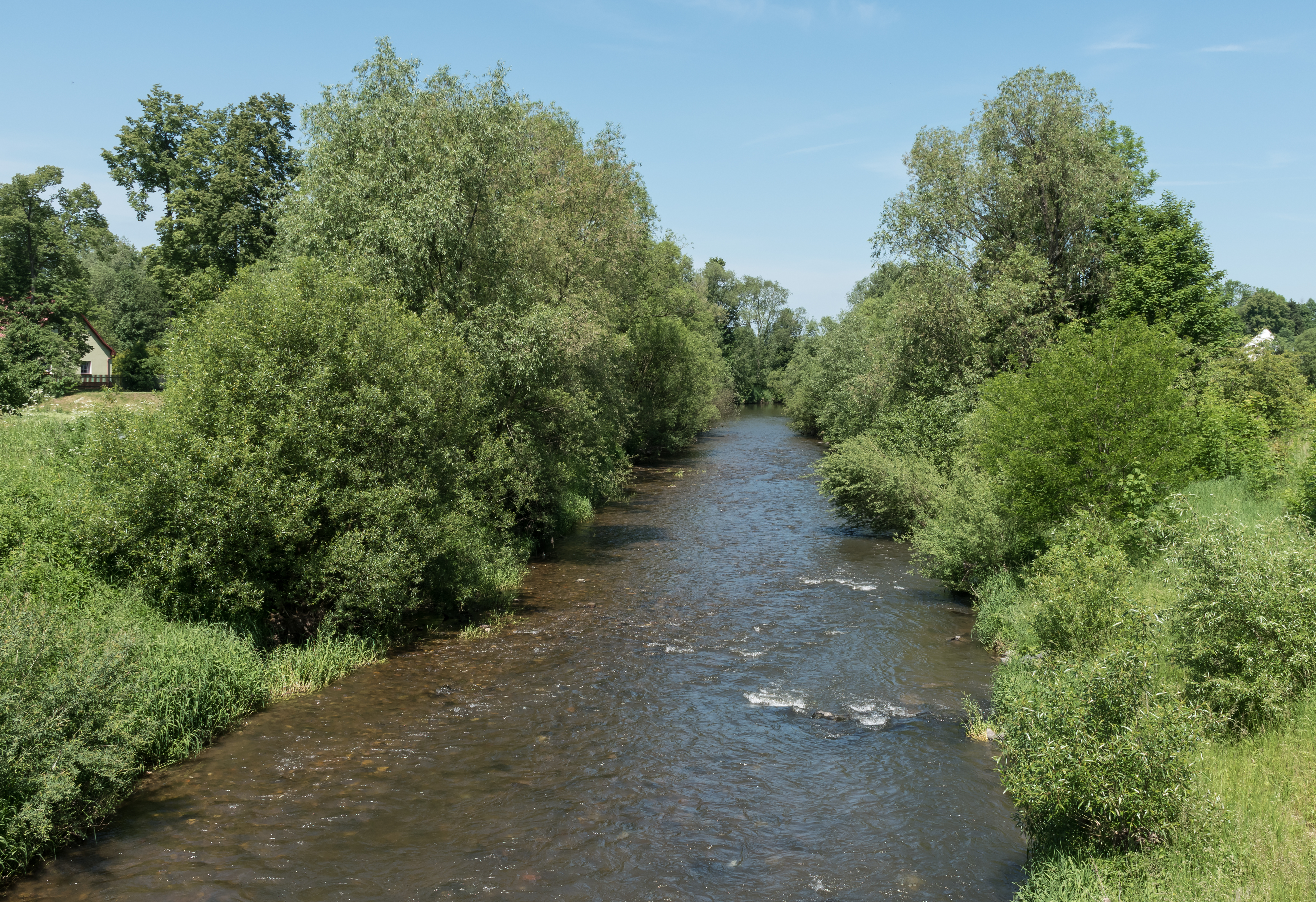 Nysa Kłodzka in Zabłocie